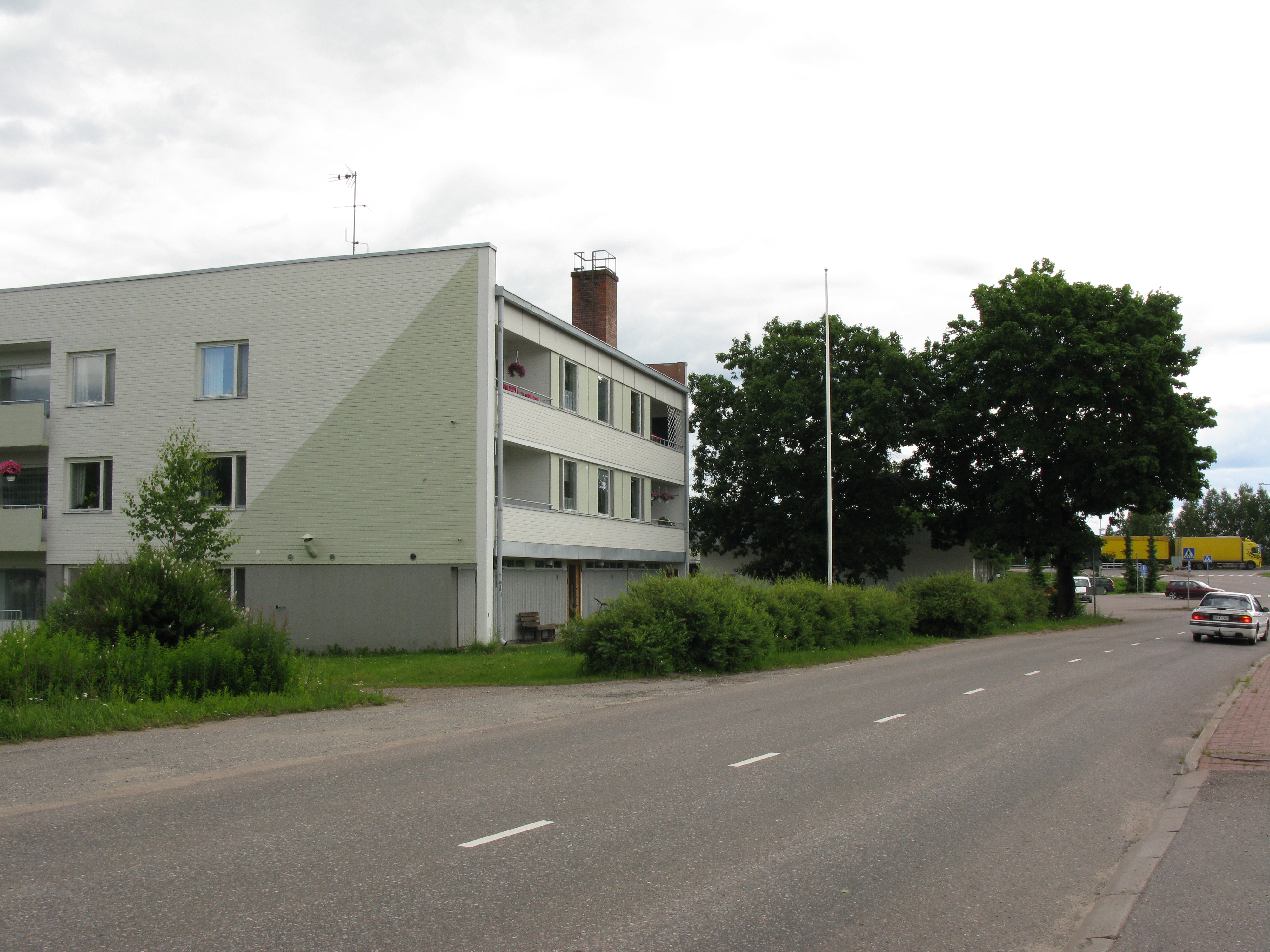 Melkoniementie road (connecting road 4052) at the centre of the village of Särkisalmi in Parikkala, Finland